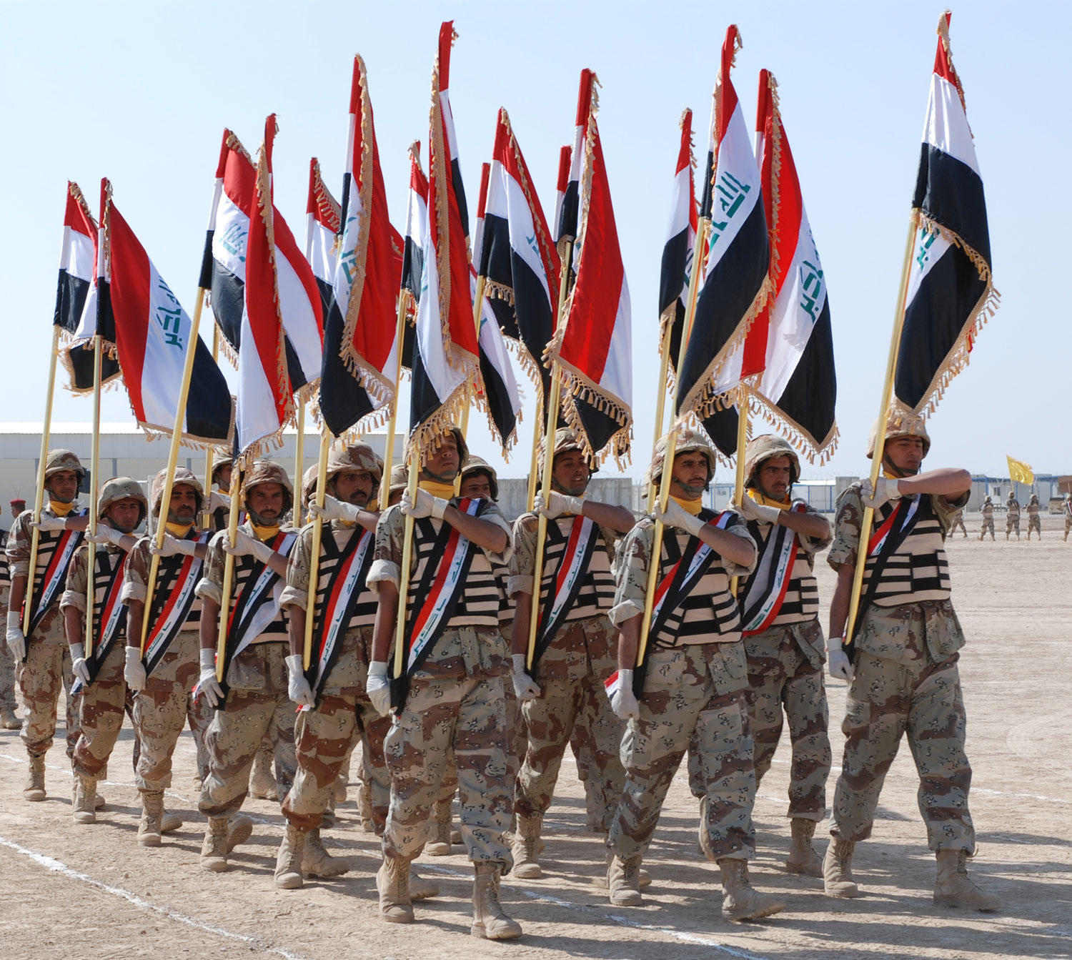 Soldiers from the 3rd Brigade of the 14th Iraqi Army Division graduate from basic training in Besmaya